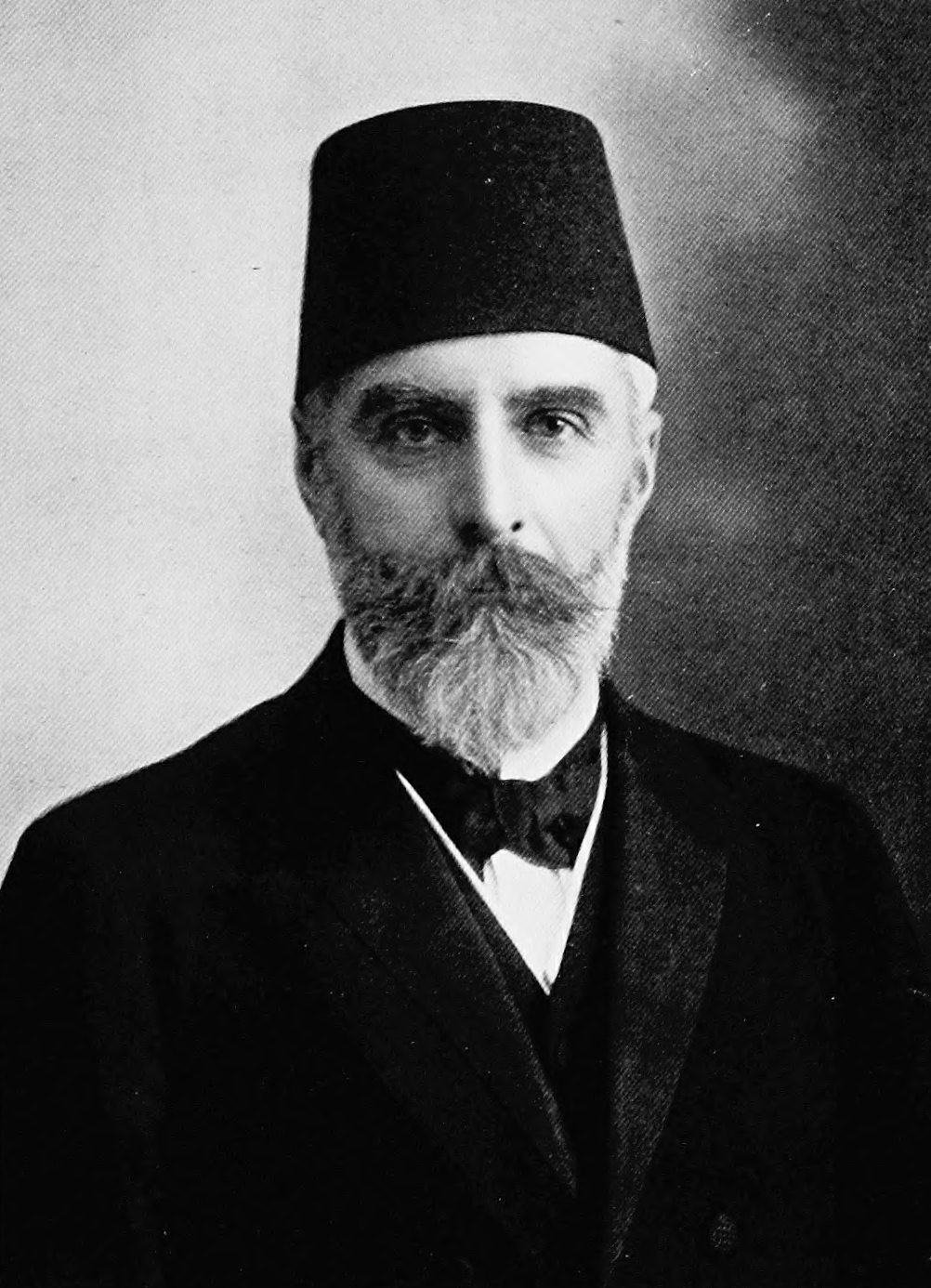 Ahmed Riza Bey